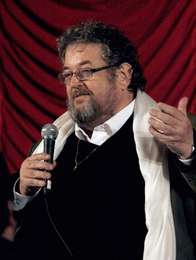 Peter Kern at the premiere of his movie Initiation during the Vienna International Film Festival 2009.